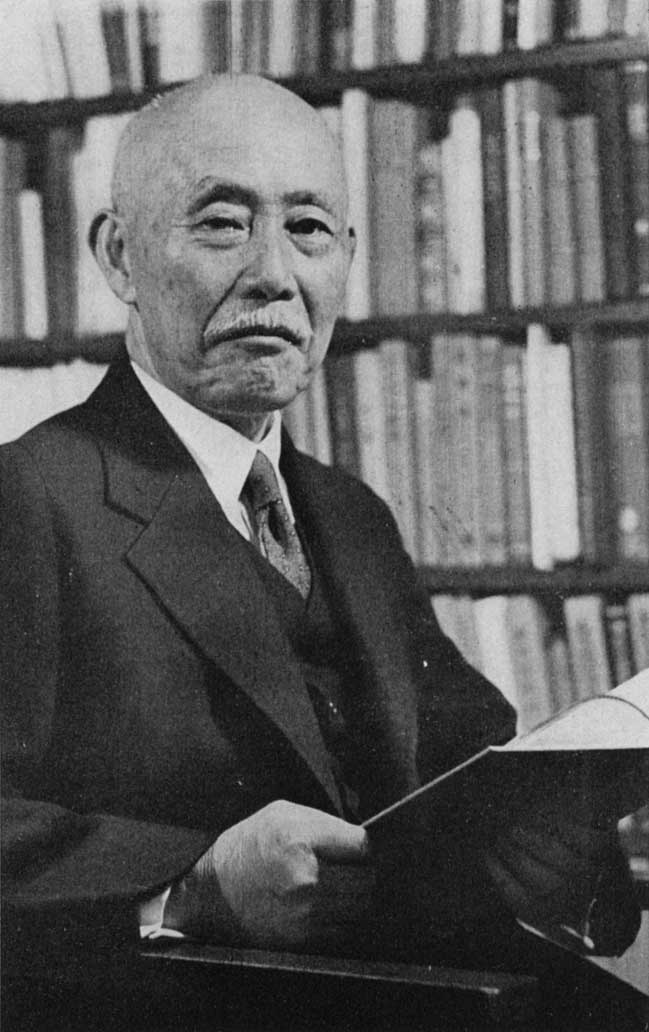 Recent portrait of Mr. Teiichi Kawai.